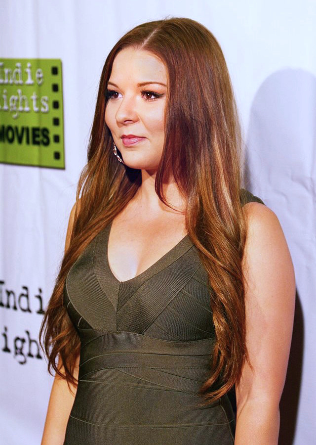 Bianca Ryan at the September 2014 premiere of We Are Kings in Los Angeles, California